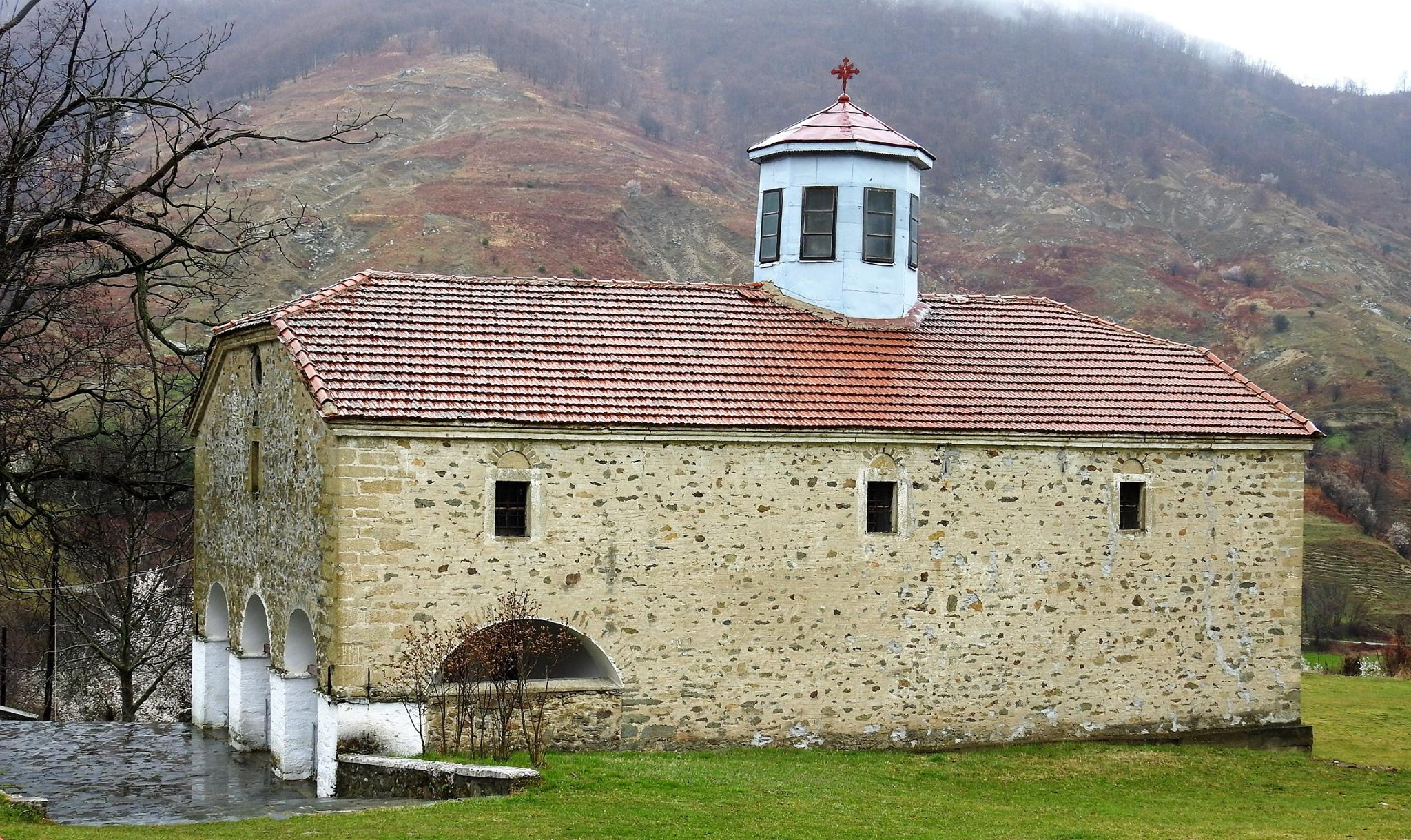 Monastery of St. George in Alona, Florina